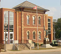 SPS Station